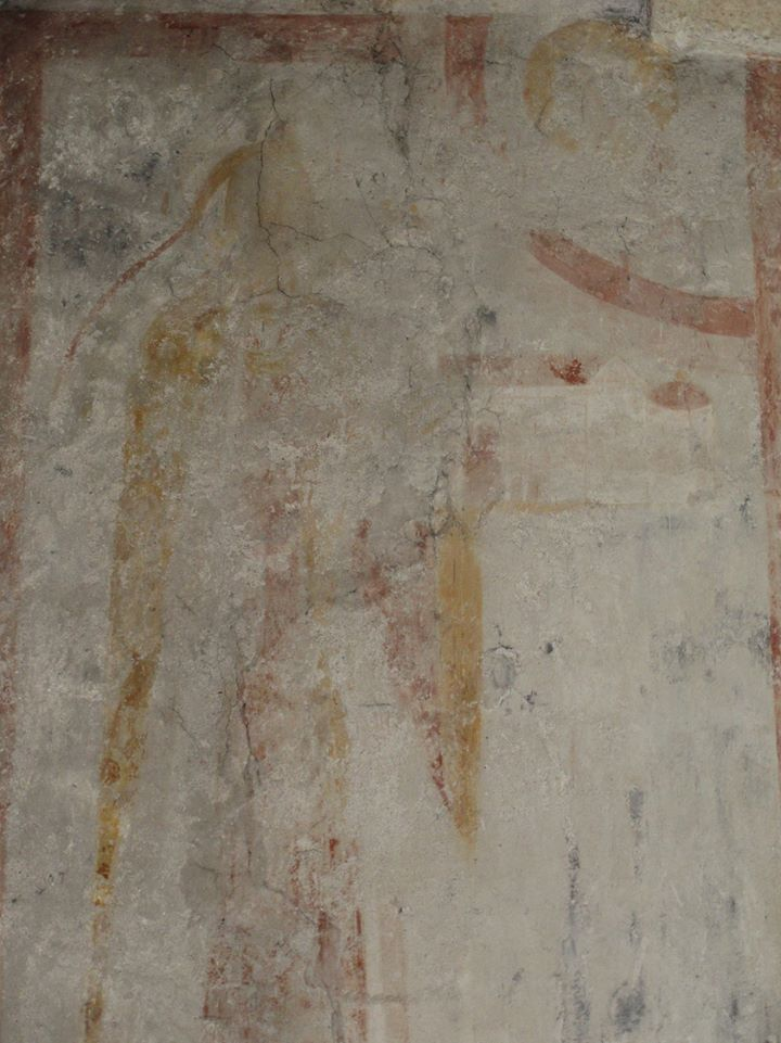 Contemporary church wall painting of Margaret Fredkulla in the church of Vä in Scania. The queen is depicted handing over (a model of) the church to God. The paiting is made between 1122 and 1131.